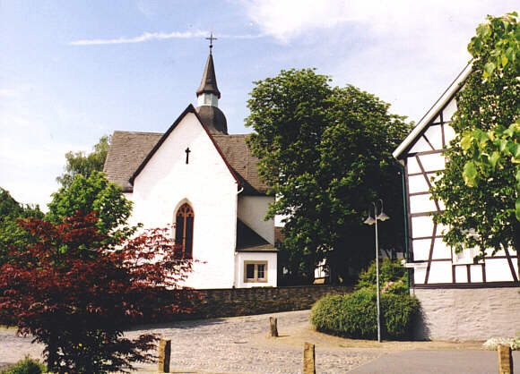 View of the Ev. church in Marienberghausen at municipality Nümbrecht. - Blick auf die Ev. Kirche in Marienberghausen Gemeinde Nümbrecht. ' Author mrfinch Time of creation 29 Oct. 2004 Licence GNU FDL and CC-by-SA Camera Canon S 45